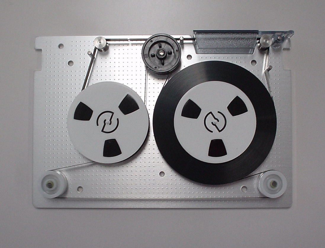 Inside of QIC tape (DC600A Cartridge)